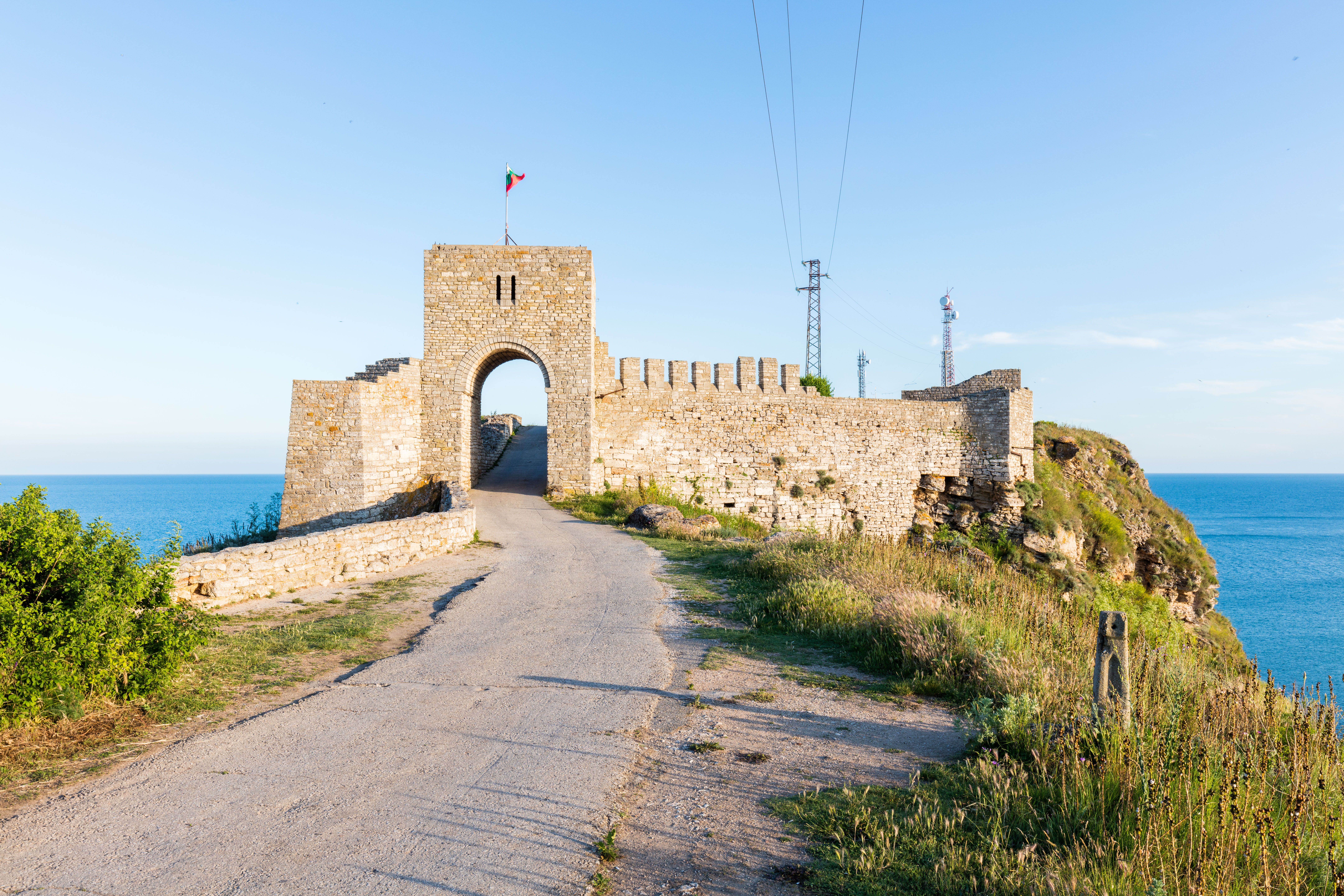 Cape of Kaliakra, Bulgaria